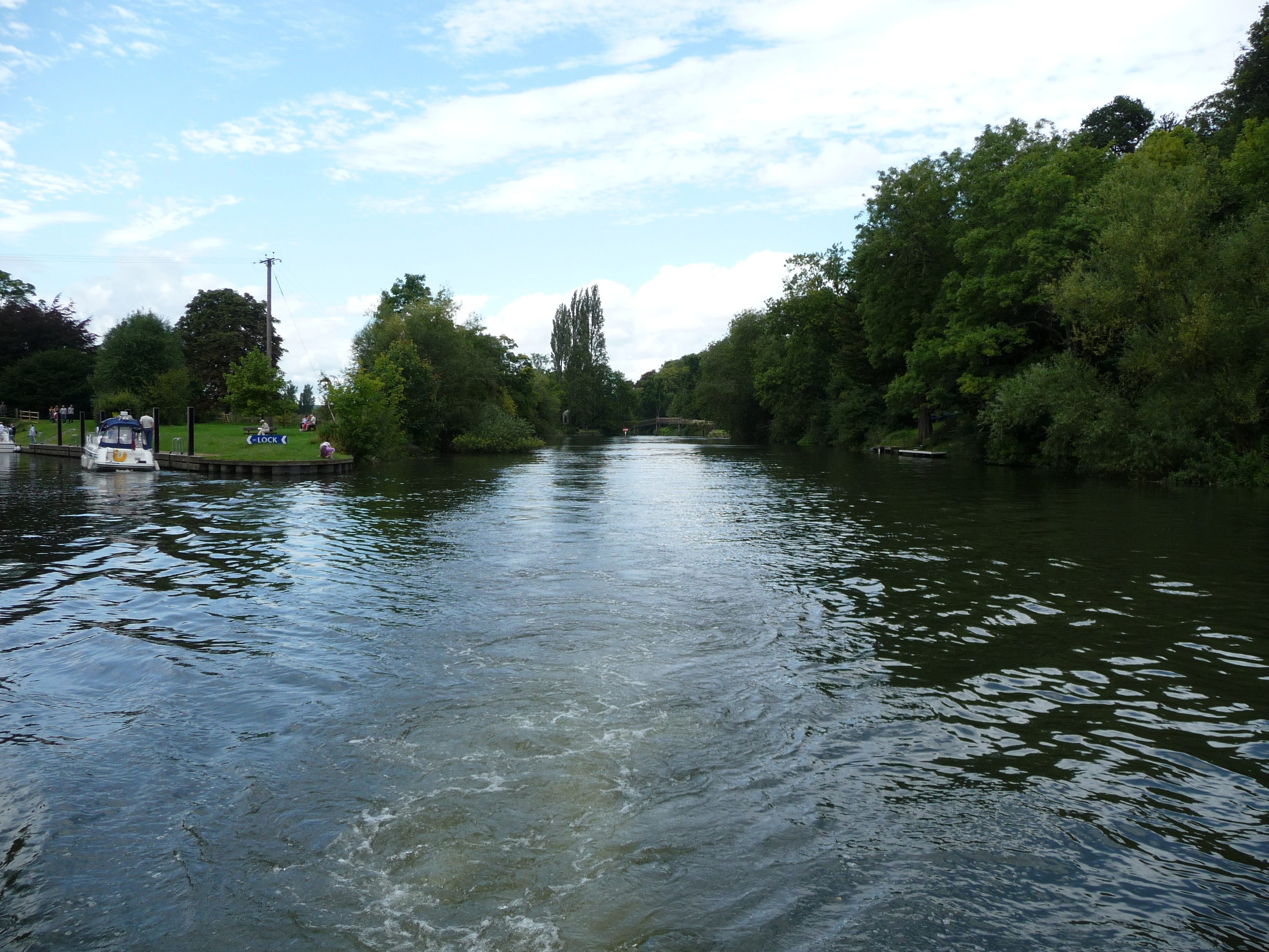 Hedsor Water re-entering the River Thames at the tail of Cookham Lock cut. The lock channel is to the left.